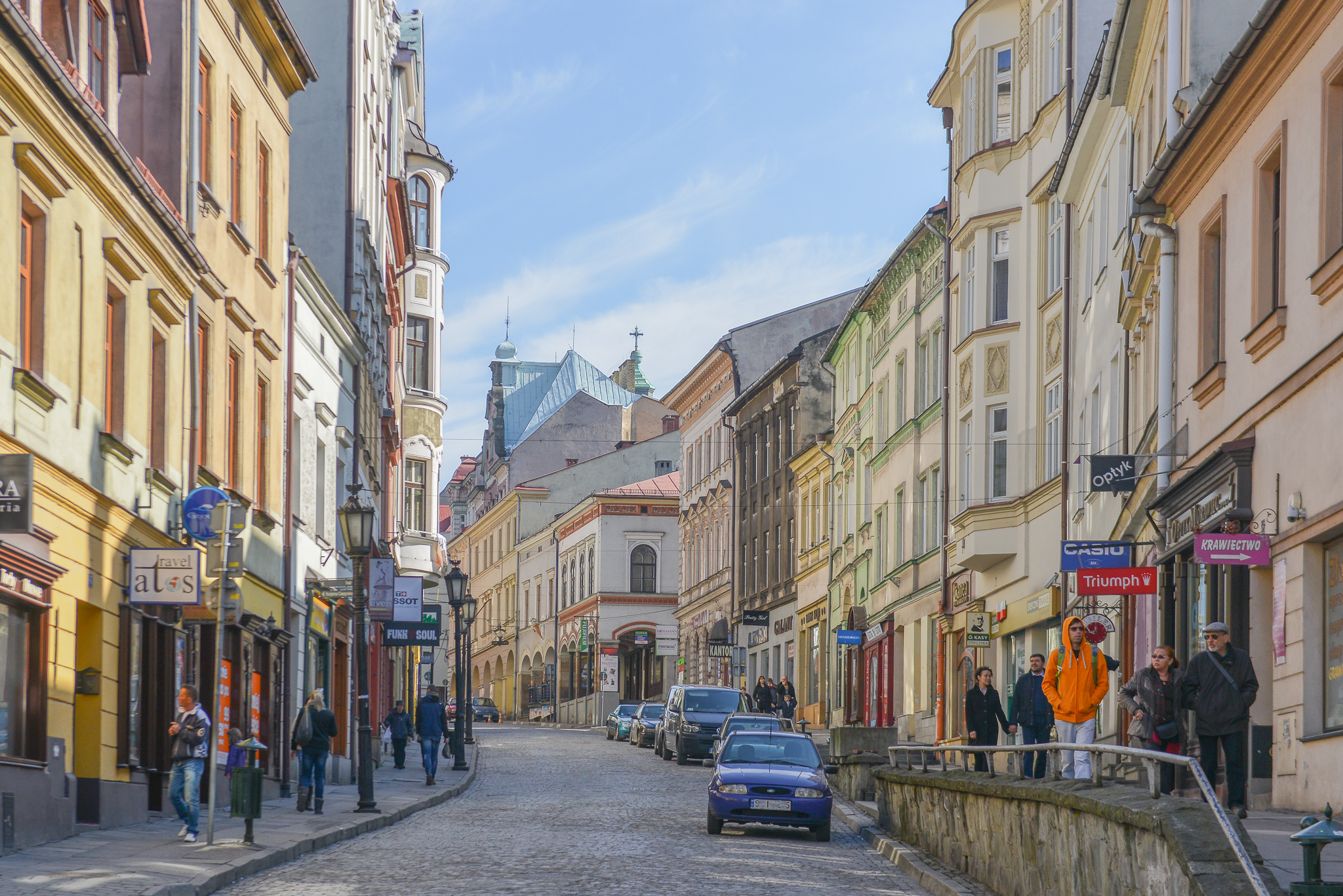 Gleboka street, Cieszyn, Poland.